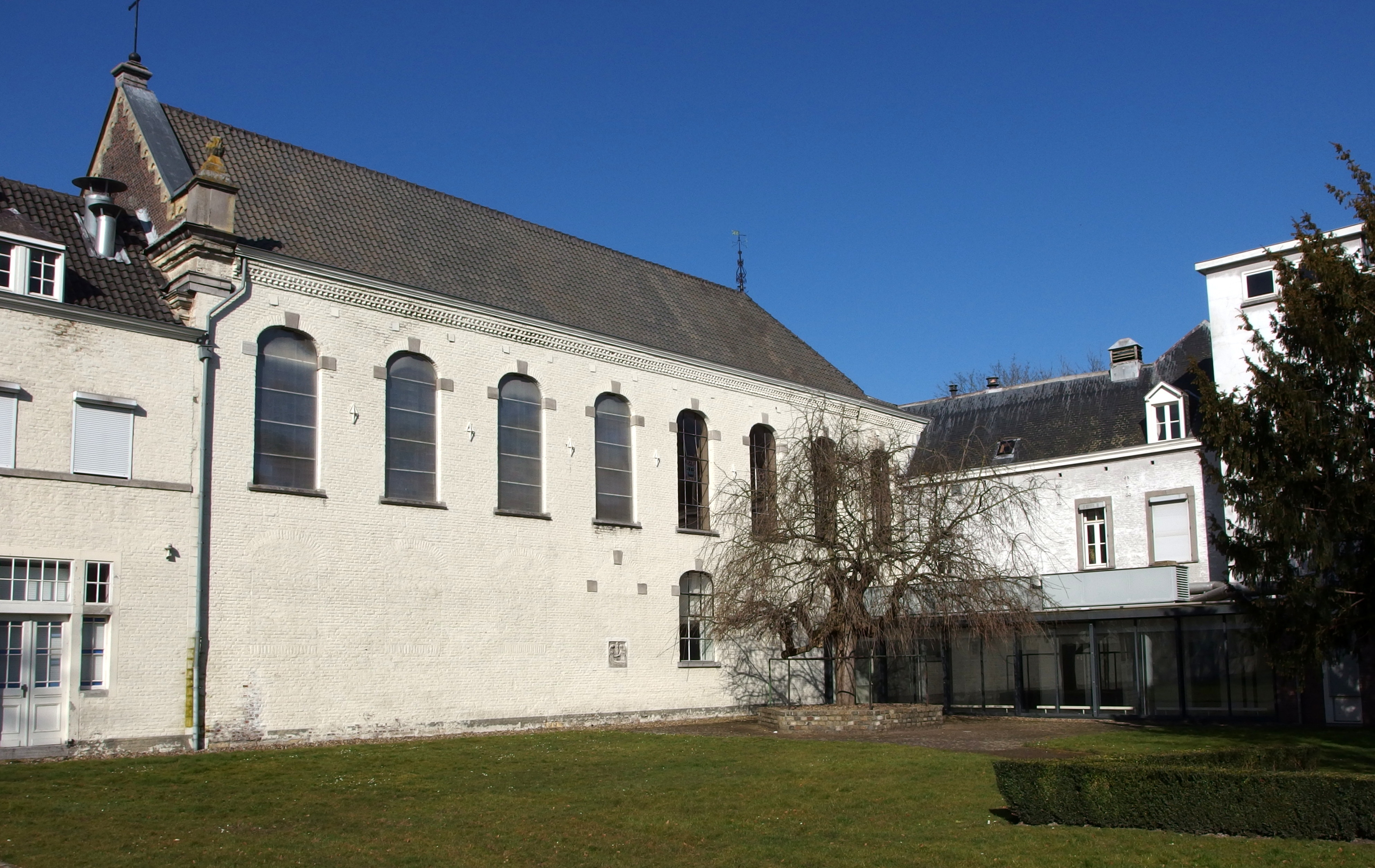 20150312 Maastricht; Calvariekapel; chapel of Calvariënberg monastery.